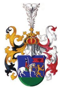 Coat of Arms of Popović Tekelija family